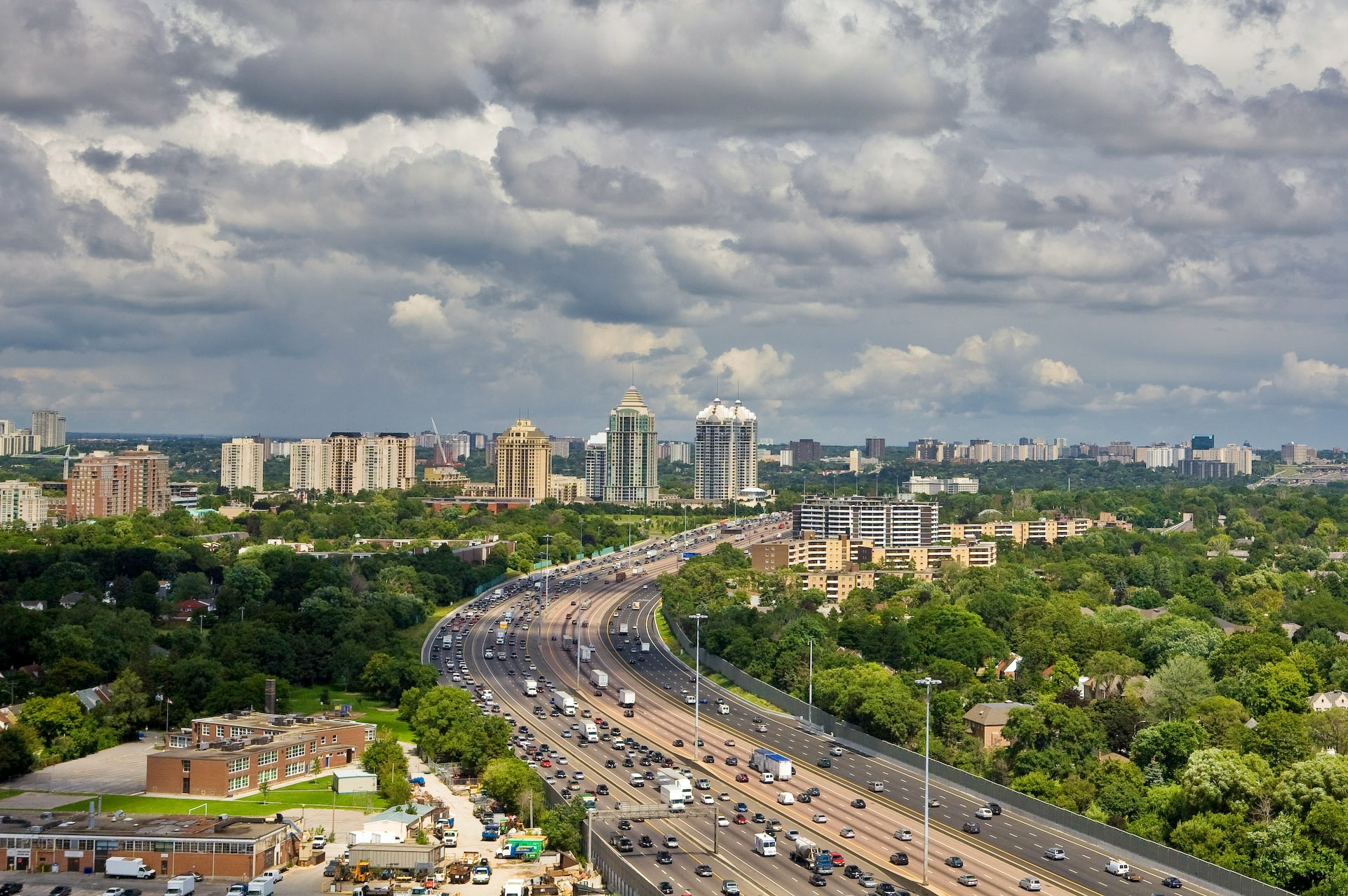 Average Afternoon on Highway 401